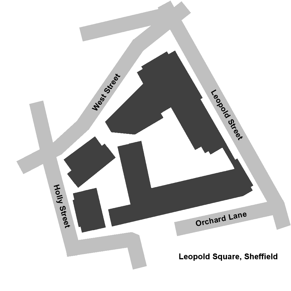 Leopold Square shopping arcade, Sheffield.